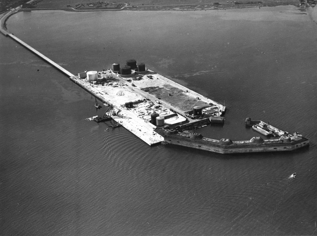 Prøvestenen in Copenhagen, Denmark